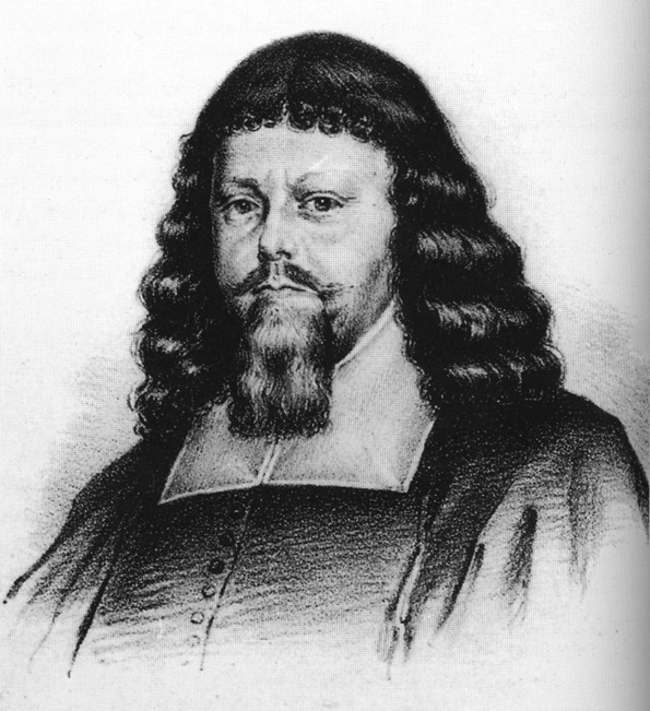 Lithograph from 1850, portrait of Johann Wachmann the younger (1611–1685), jurist and diplomat from Bremen, Germany.